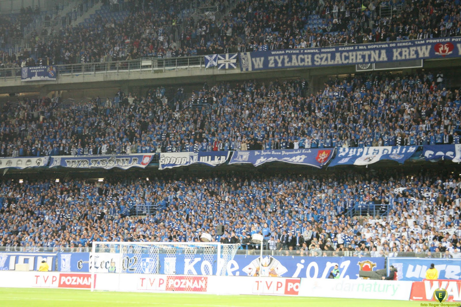 Lech Poznan fans in stadium Lech Poznań vs Manchester City FC, 4 November, 2010